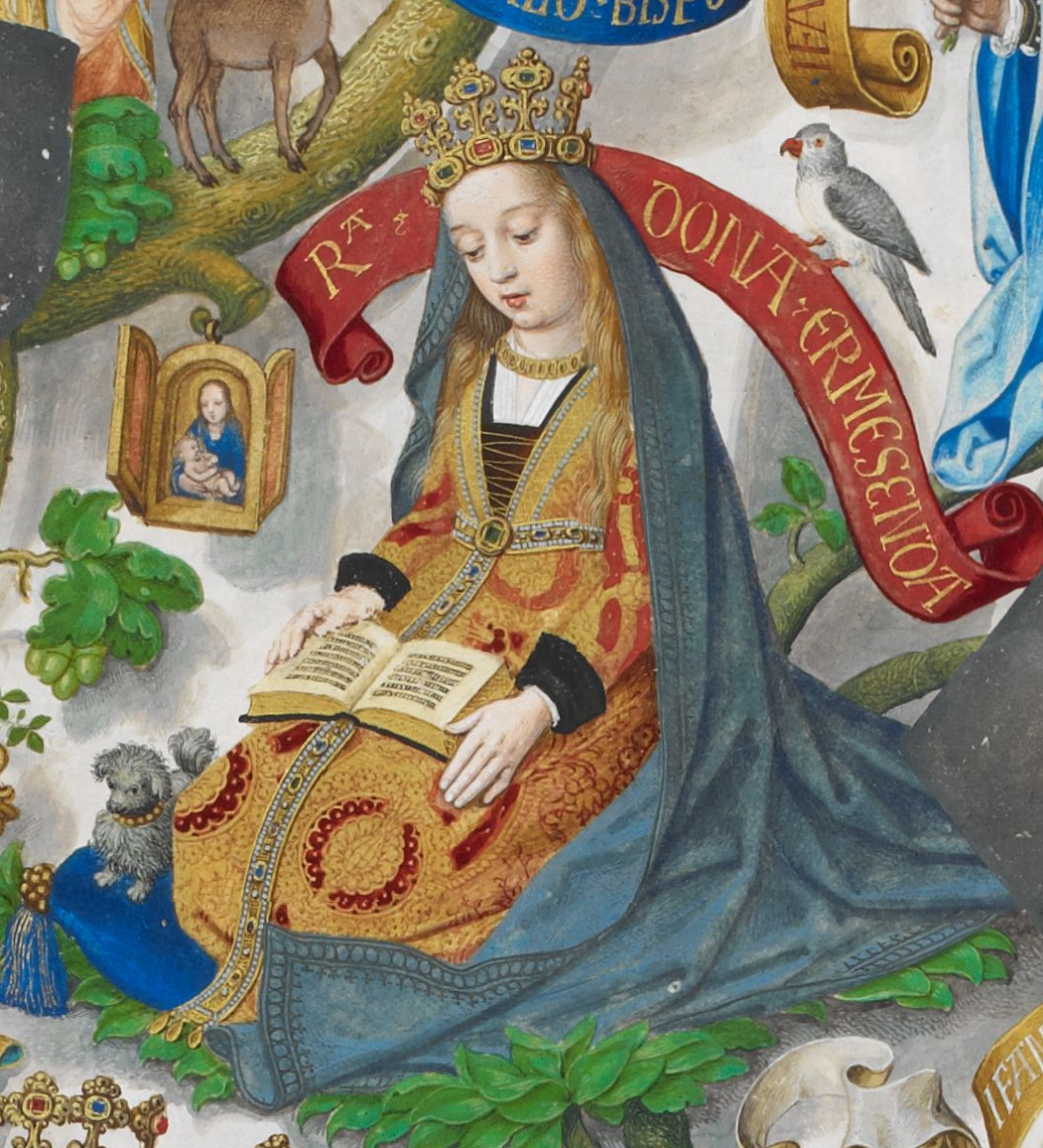 Gerberga of Foix, Queen of Aragon as first wife of Ramiro I, King of Aragon